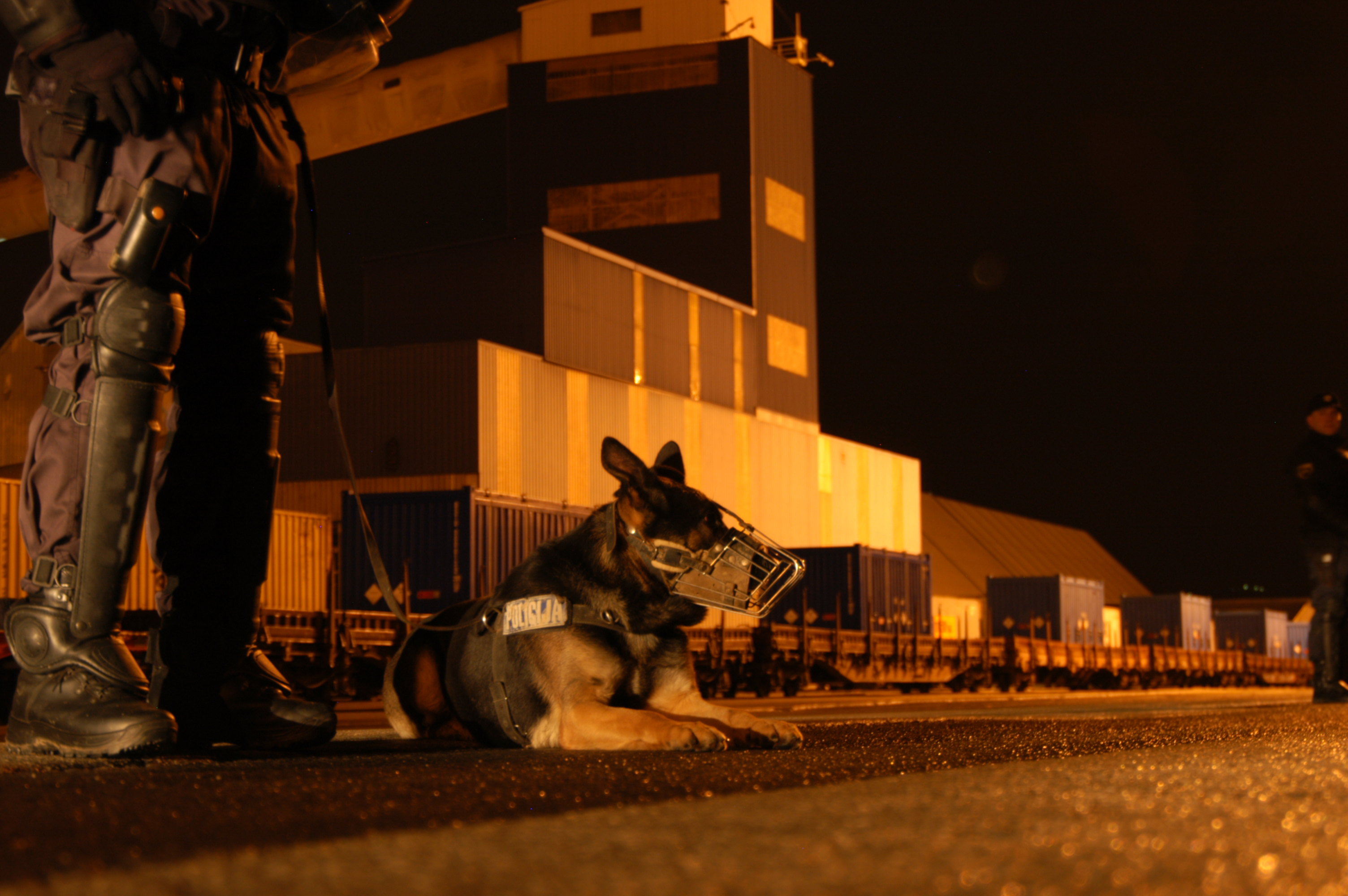 IAEA Coordinates Nuclear Fuel Shipment From Serbia The train arrives at the port of Koper, Slovenia, where trucks transfer the containers from train to ship (Koper, Slovenia; 21 November, 2010). Copyright: IAEA Imagebank Photo Credit: Greg Webb/IAEA